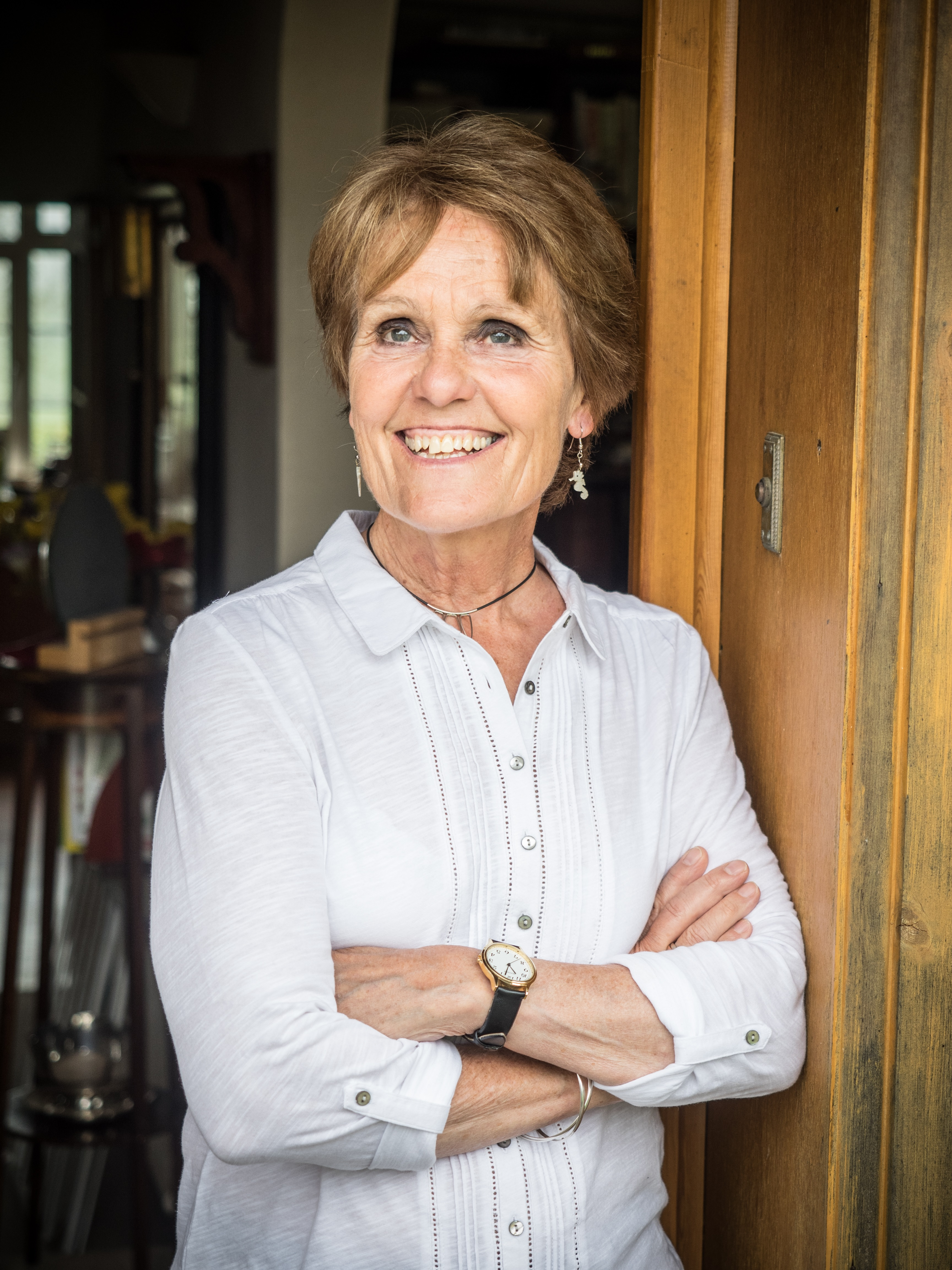 Gina Rippon OLYMPUS DIGITAL CAMERA